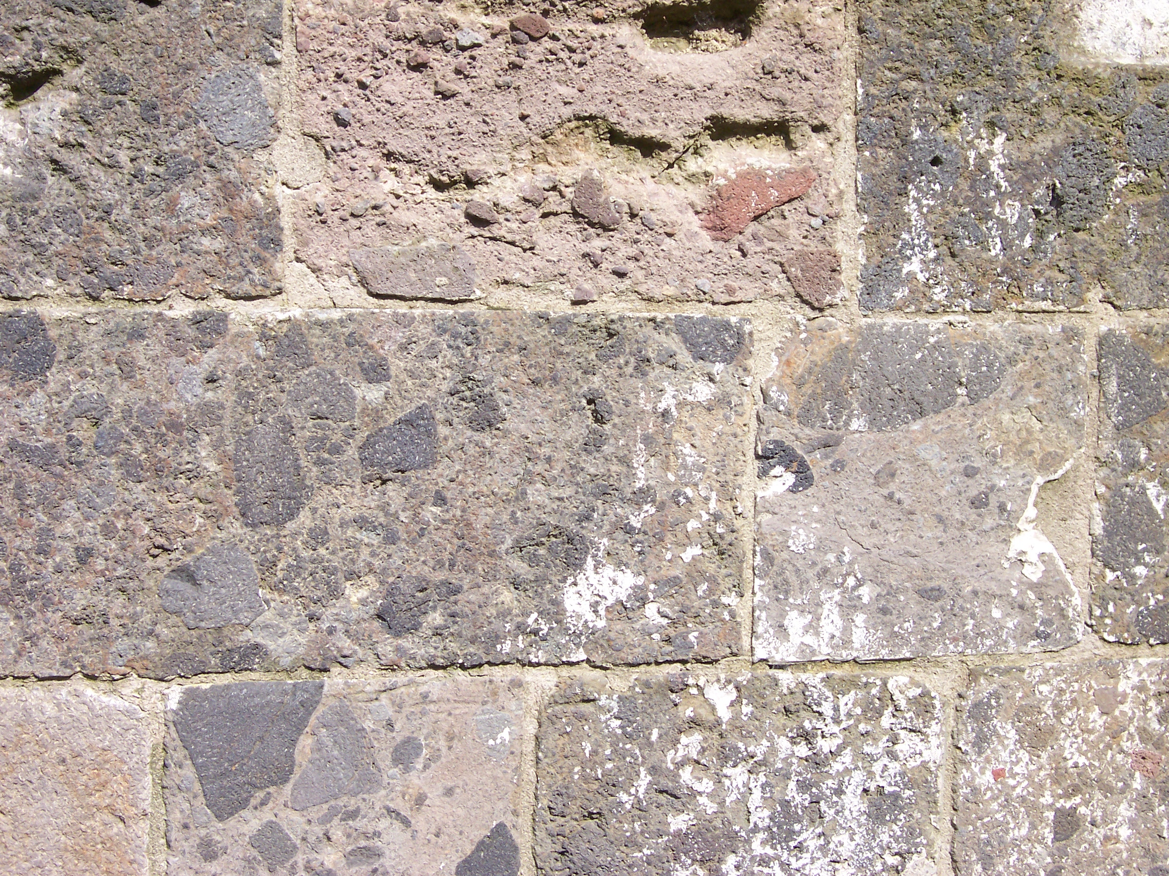 Pyroclastic breccias of Cantal volcano in Auvergne, France, used as building stones for the church of Salers